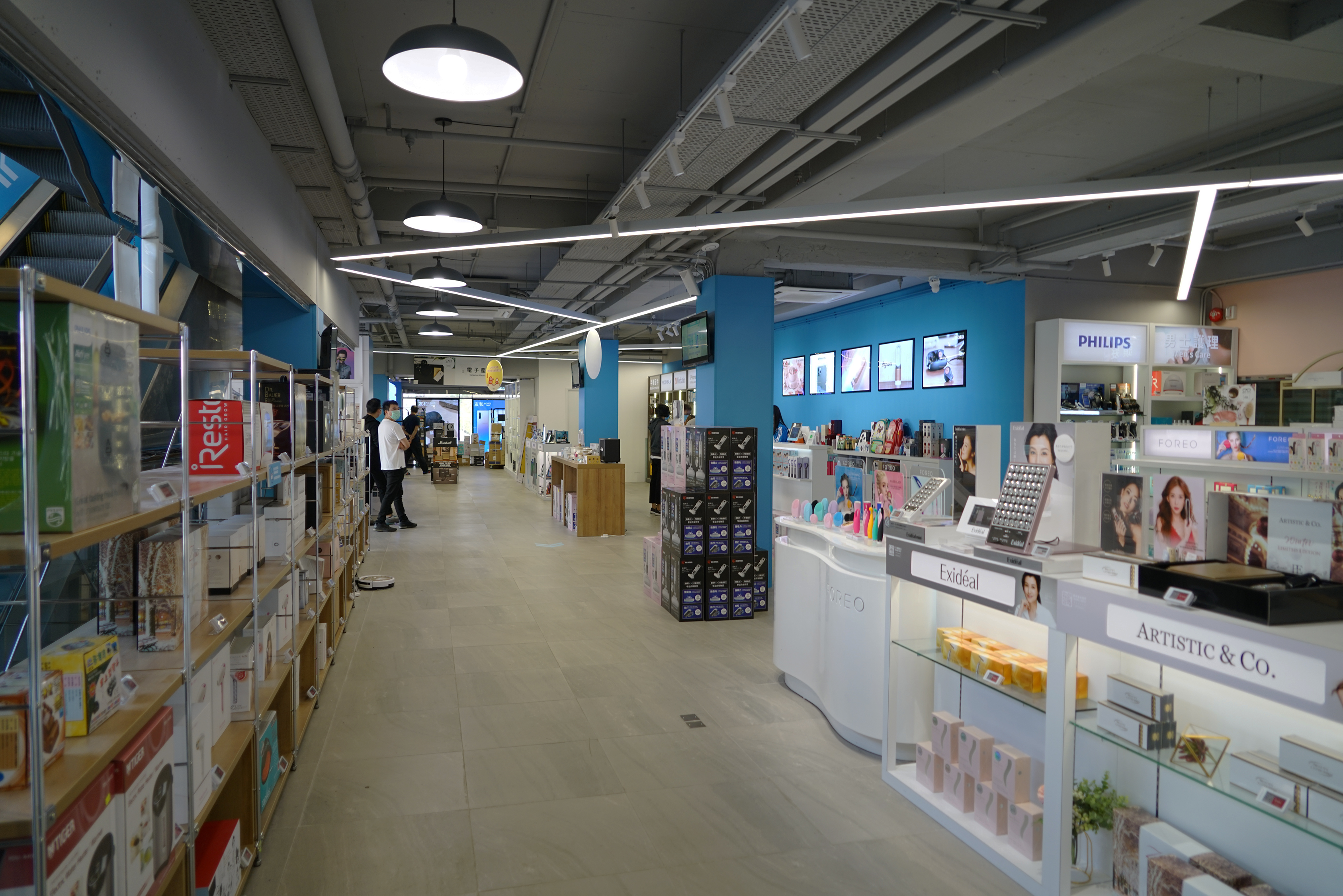 Lai Kok Shopping Centre, Hong Kong.